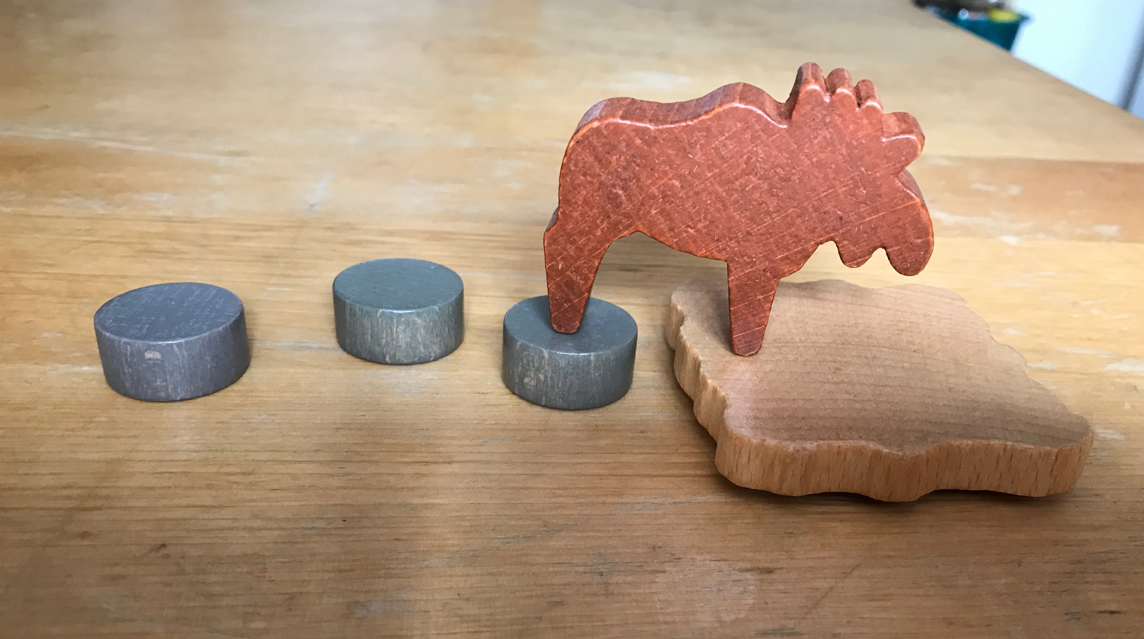 Materials of the 2 player game Elk Fest